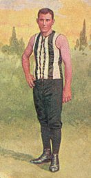 Charlie Pannam, a footballer who played for Collingwood. Also known as Charlie Pannam senior.